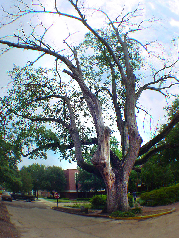 The former Arsenal Oak, in June 2004, Augusta State University, Augusta, Georgia, USA